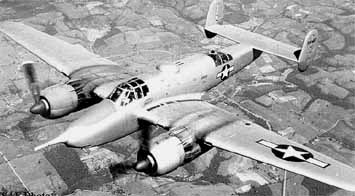 Beechcraft XA-38 Grizzly, 1944 The Beechcraft XA-38 Grizzly was a heavily armed ground attack plane prototype, fitted with a forward-firing 75 mm cannon to attack heavily armored targets. Image from english wikipedia article: XA-38 Grizzly